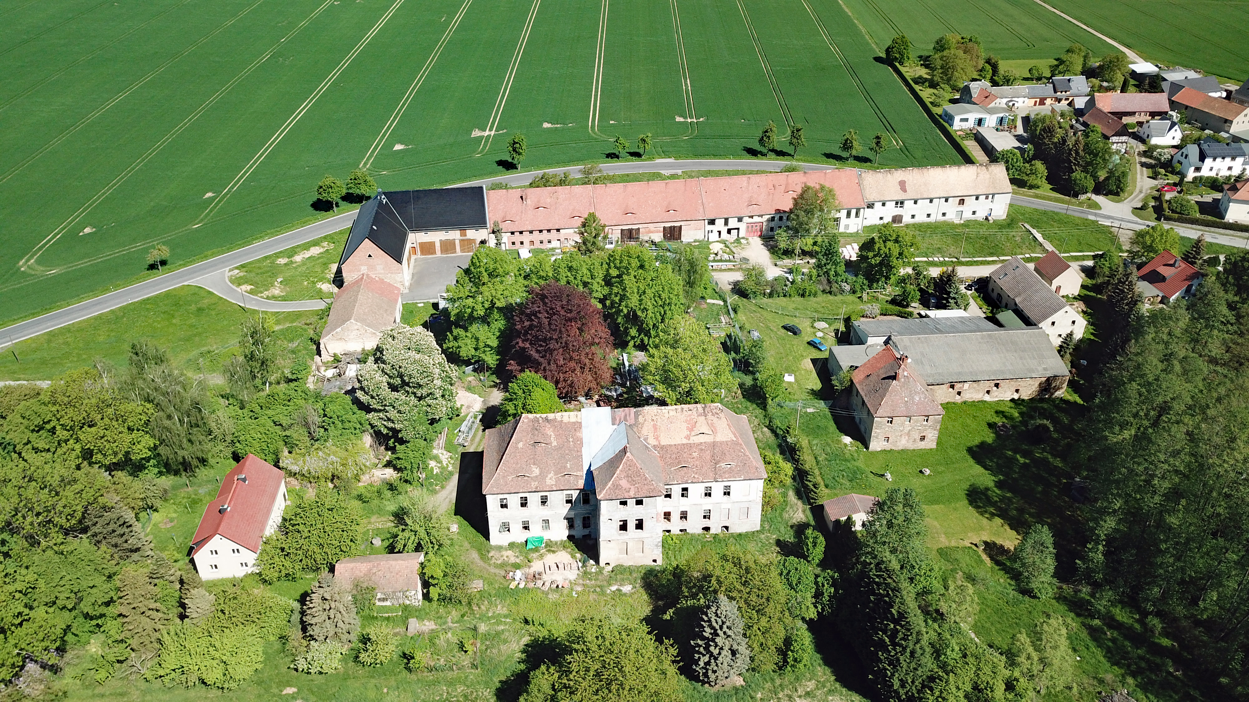 Jeßnitz Rittergut (Puschwitz, Saxony, Germany) Hornjoserbsce: Powětrowy wobraz Jasčanskeho ryćerkubła